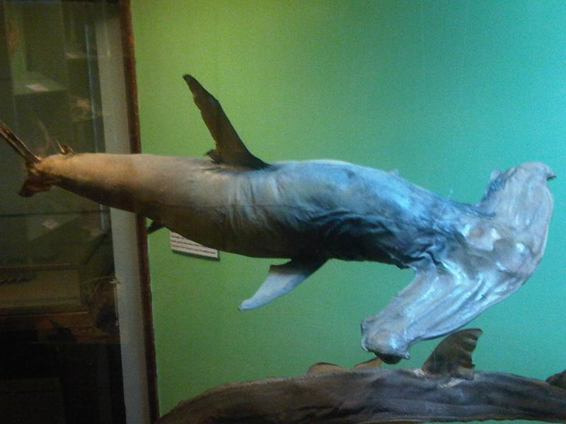 Smooth hammerhead (Sphyrna zygaena) at the National Museum of Natural History, Vilhena Palace, Republic of Malta.